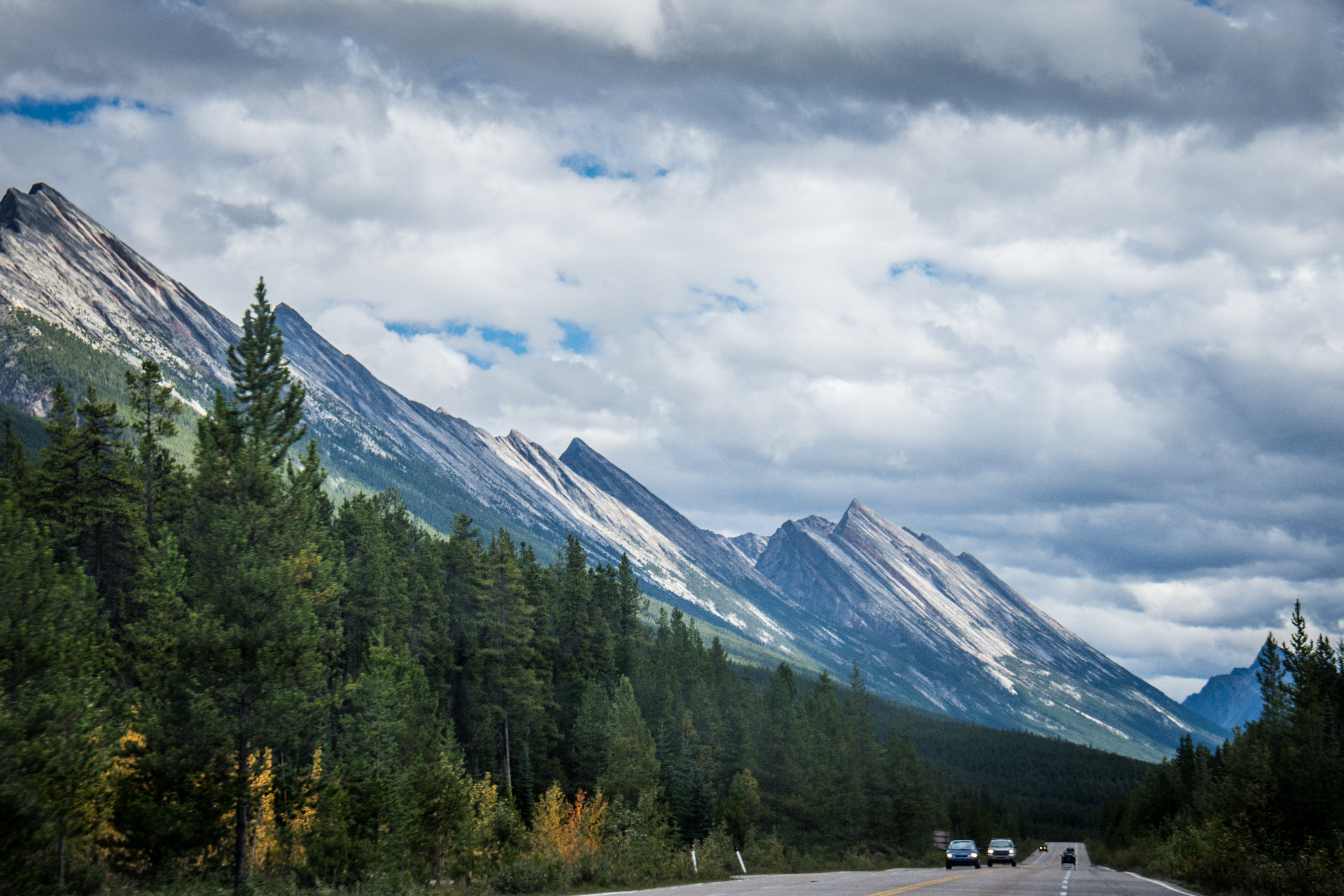 Love the mountains along the icefields parkway